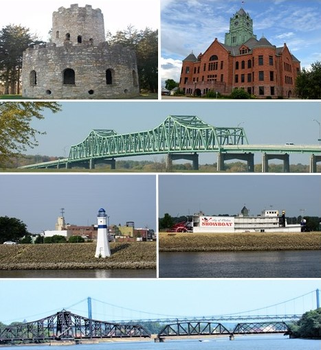 A montage of pictures of the city of Clinton, Iowa.